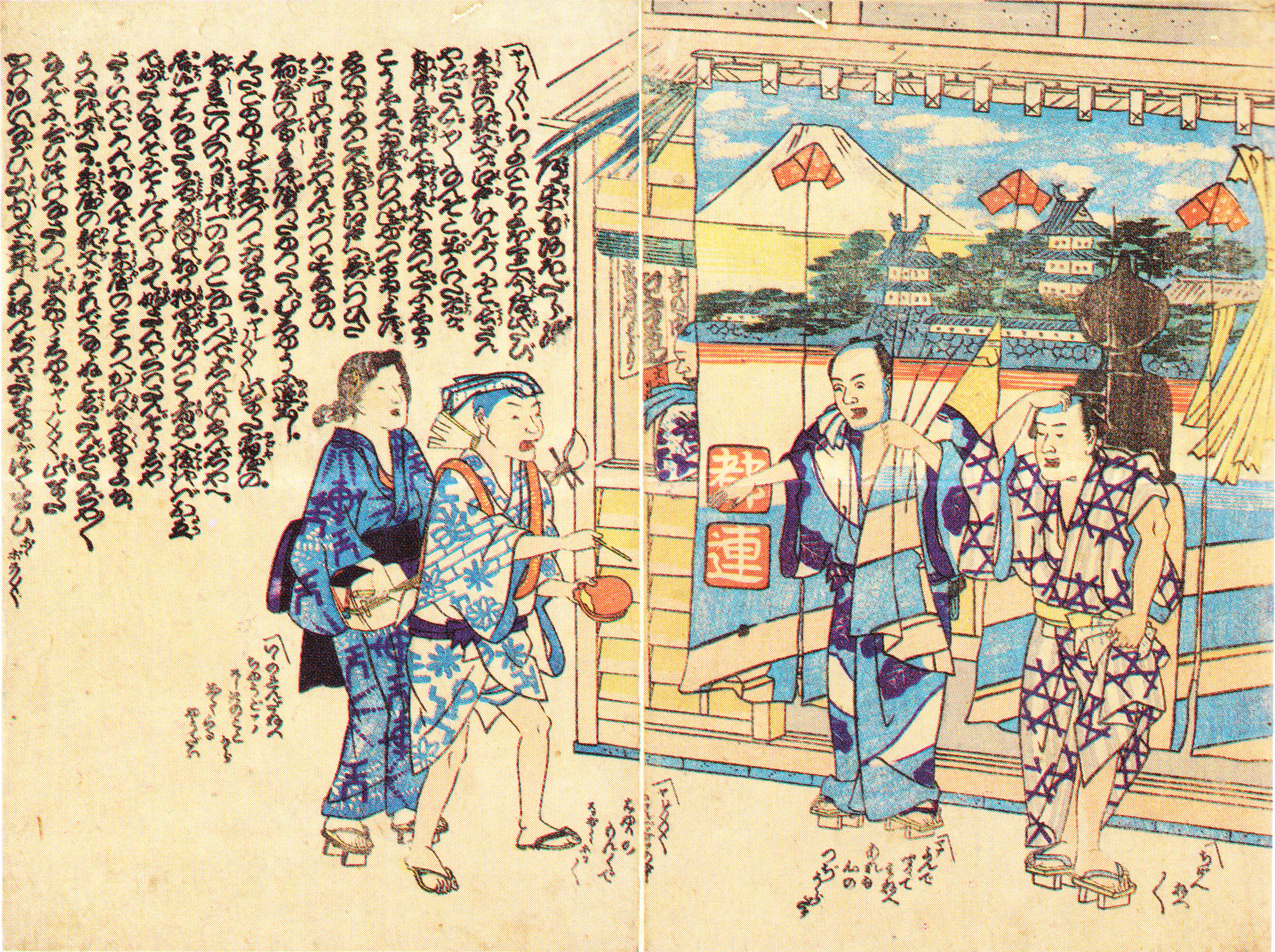 a Nishiki-e in 1868. People chanting a comical song named "Ahodara-kyo"